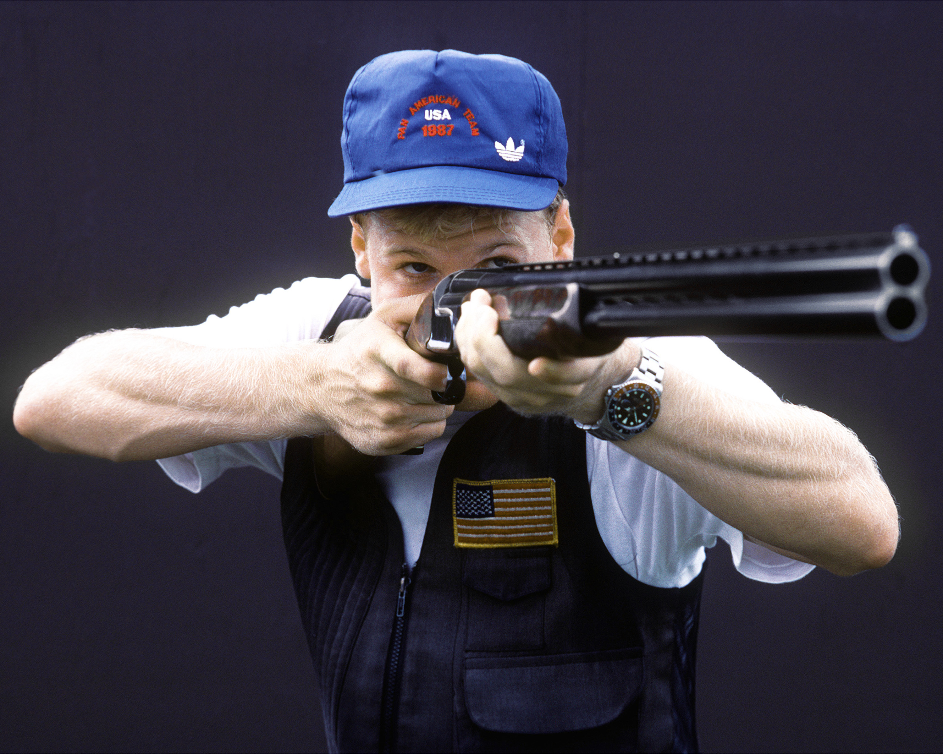 George A. Haas shoulders his shotgun, showing the form that helped win the U.S. men's team a gold medal in trap shooting at the 10th Annual Pan American Games.